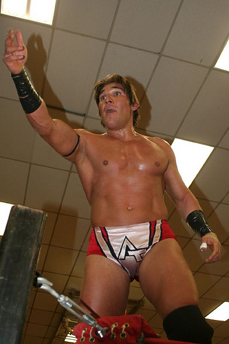 Professional wrestler Antonio Thomas at a Power and Glory Wrestling show in December 2008